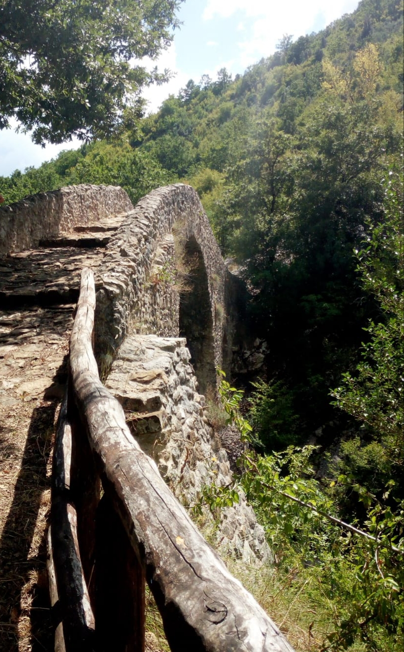 Medieval bridge magliano nuovo